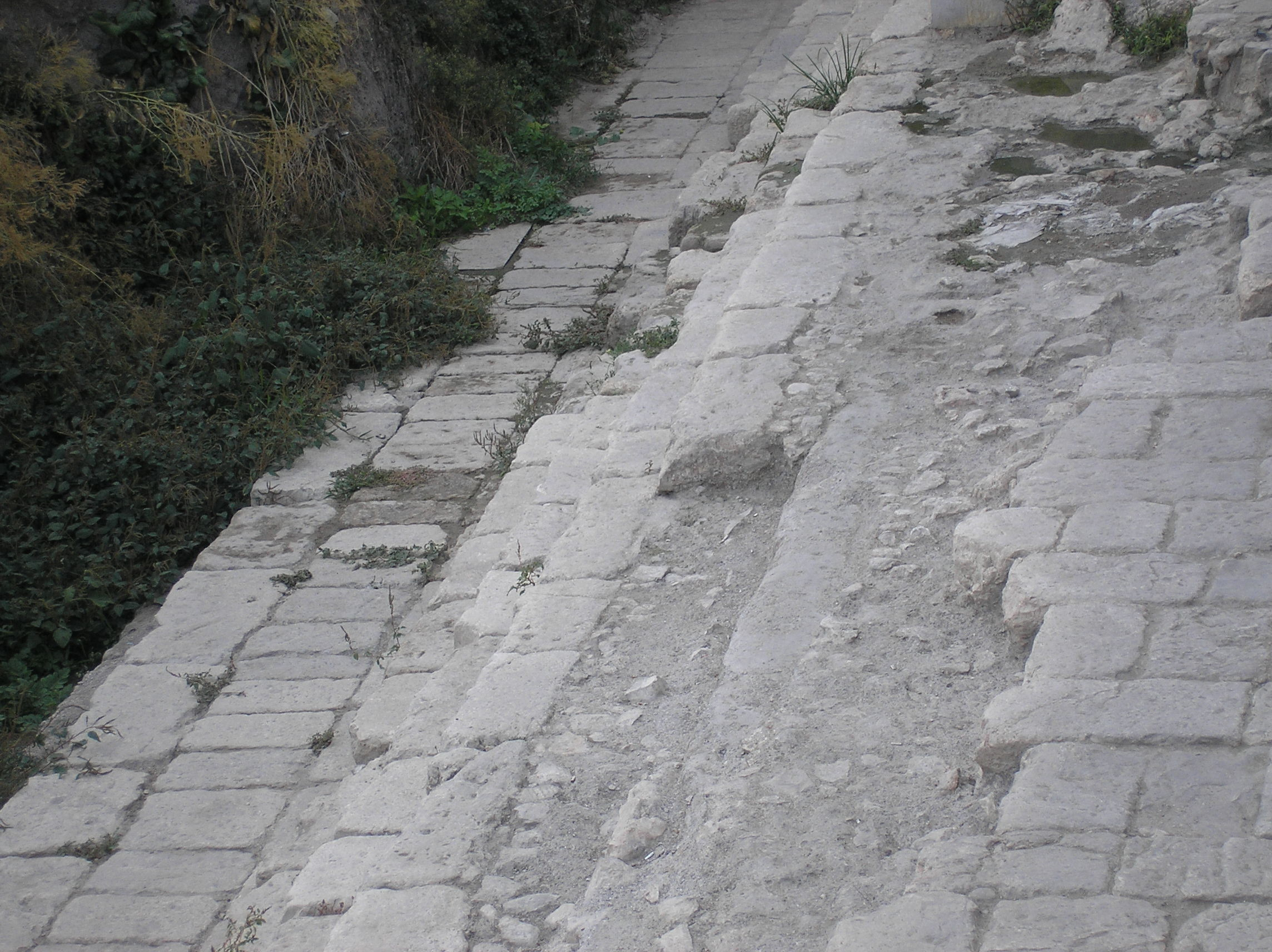 Pool of Siloam